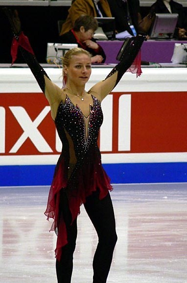 Viktoria Volchkova at the 2006 European Figure Skating Championships